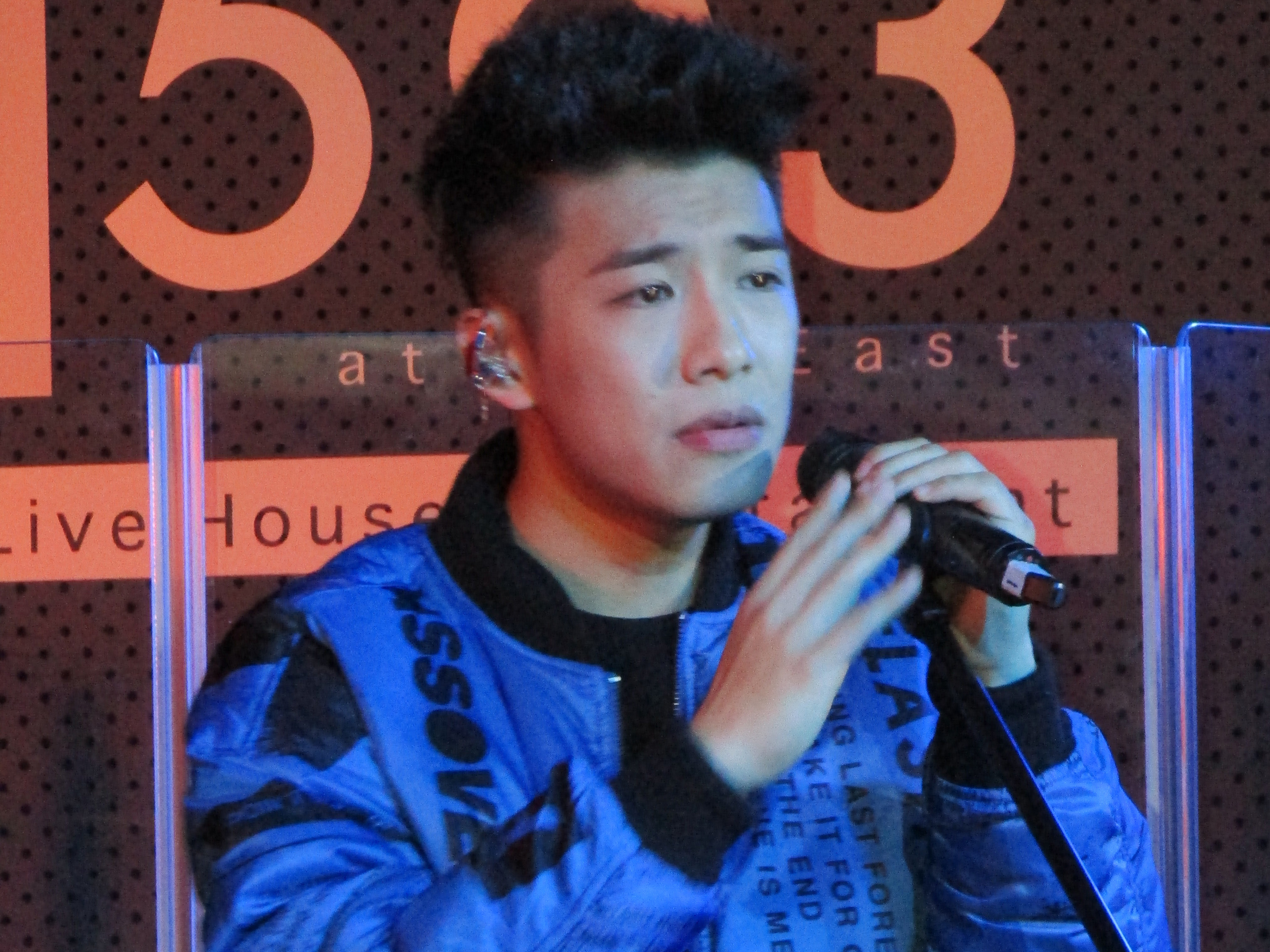 Kaho Hung is singing in 1563 Live House, Hopewell Centre, Wan Chai